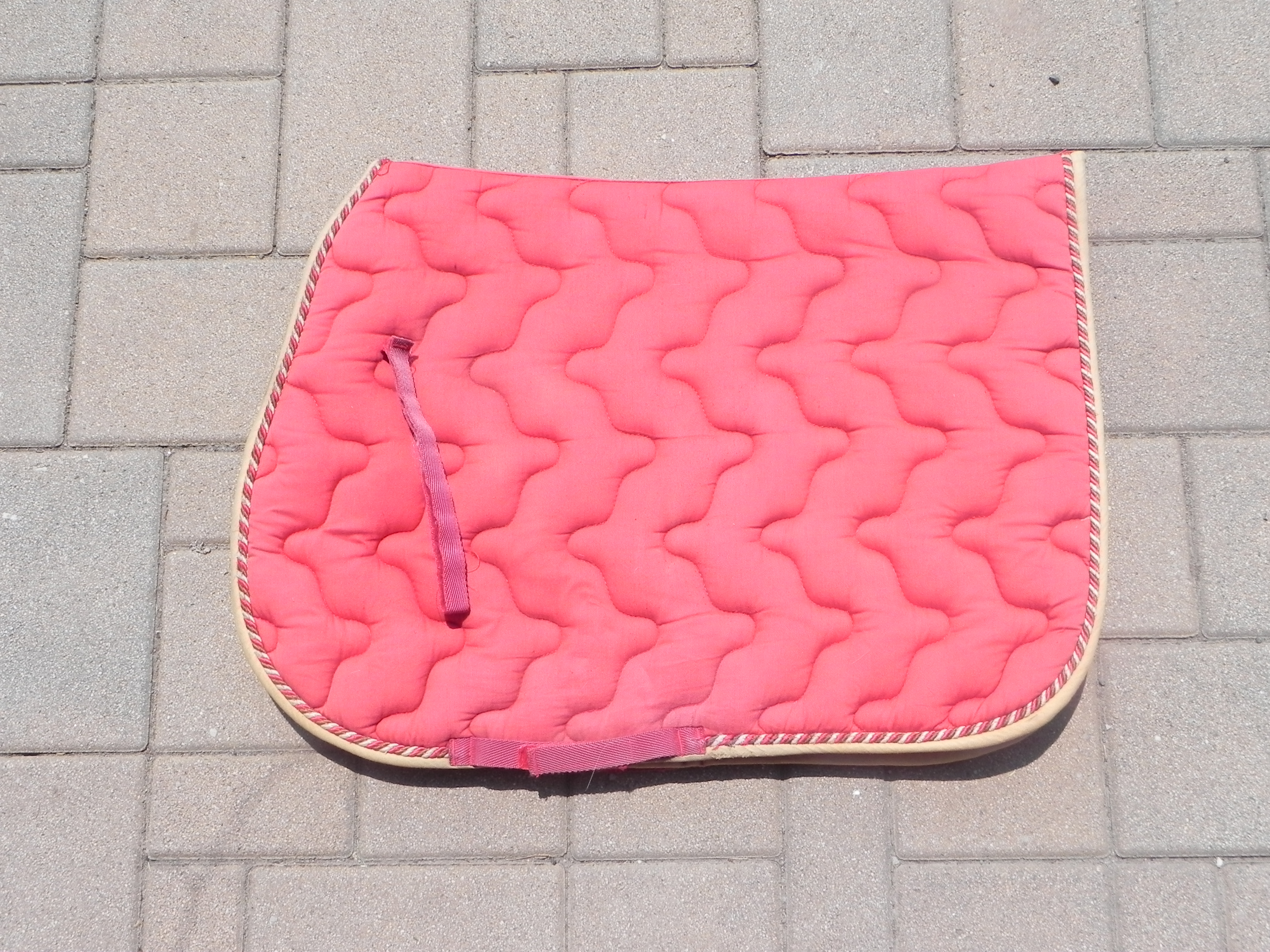 Typical english saddle pad with a special pattern.